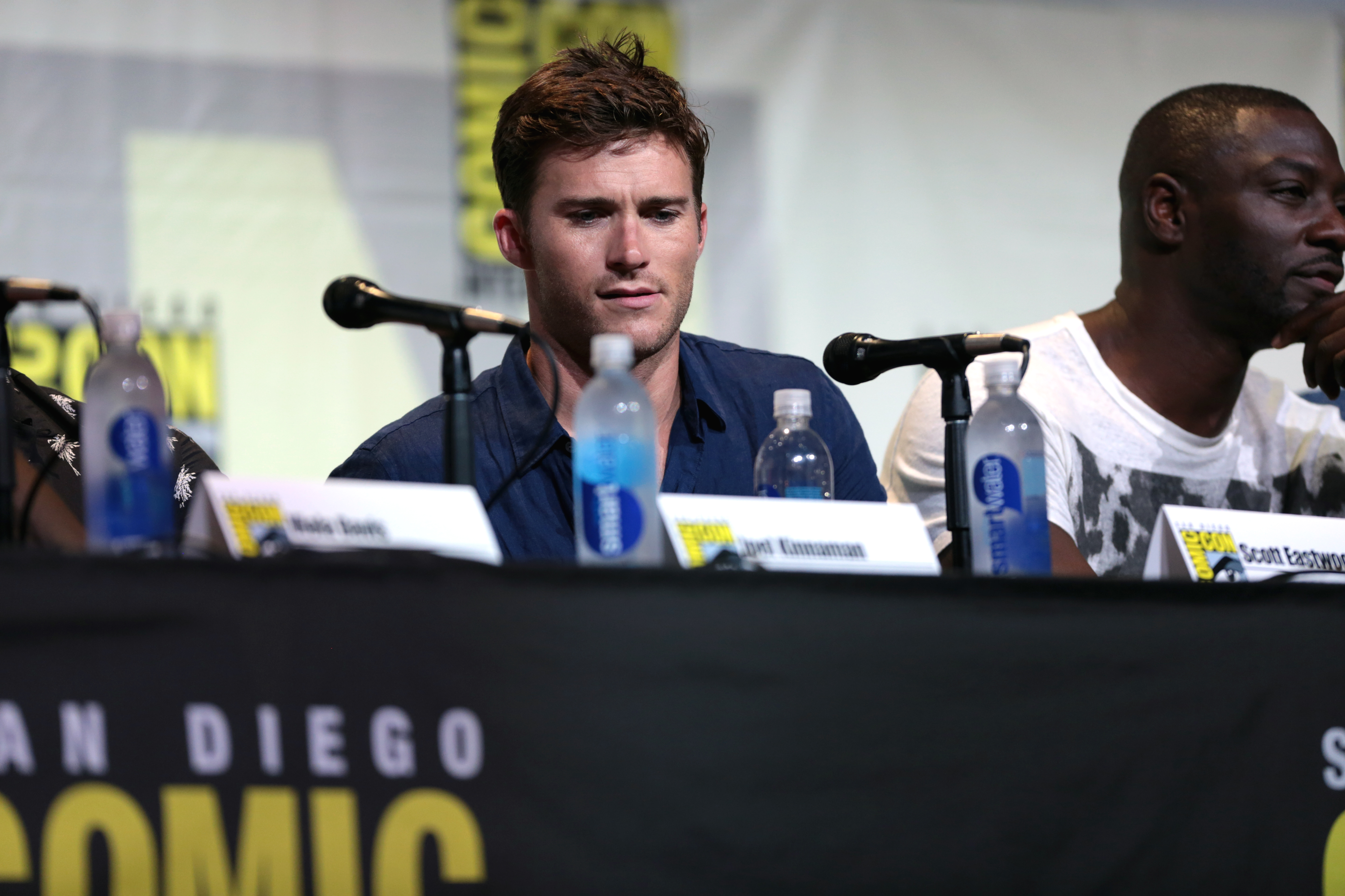 Scott Eastwood speaking at the 2016 San Diego Comic Con International, for "Suicide Squad", at the San Diego Convention Center in San Diego, California.